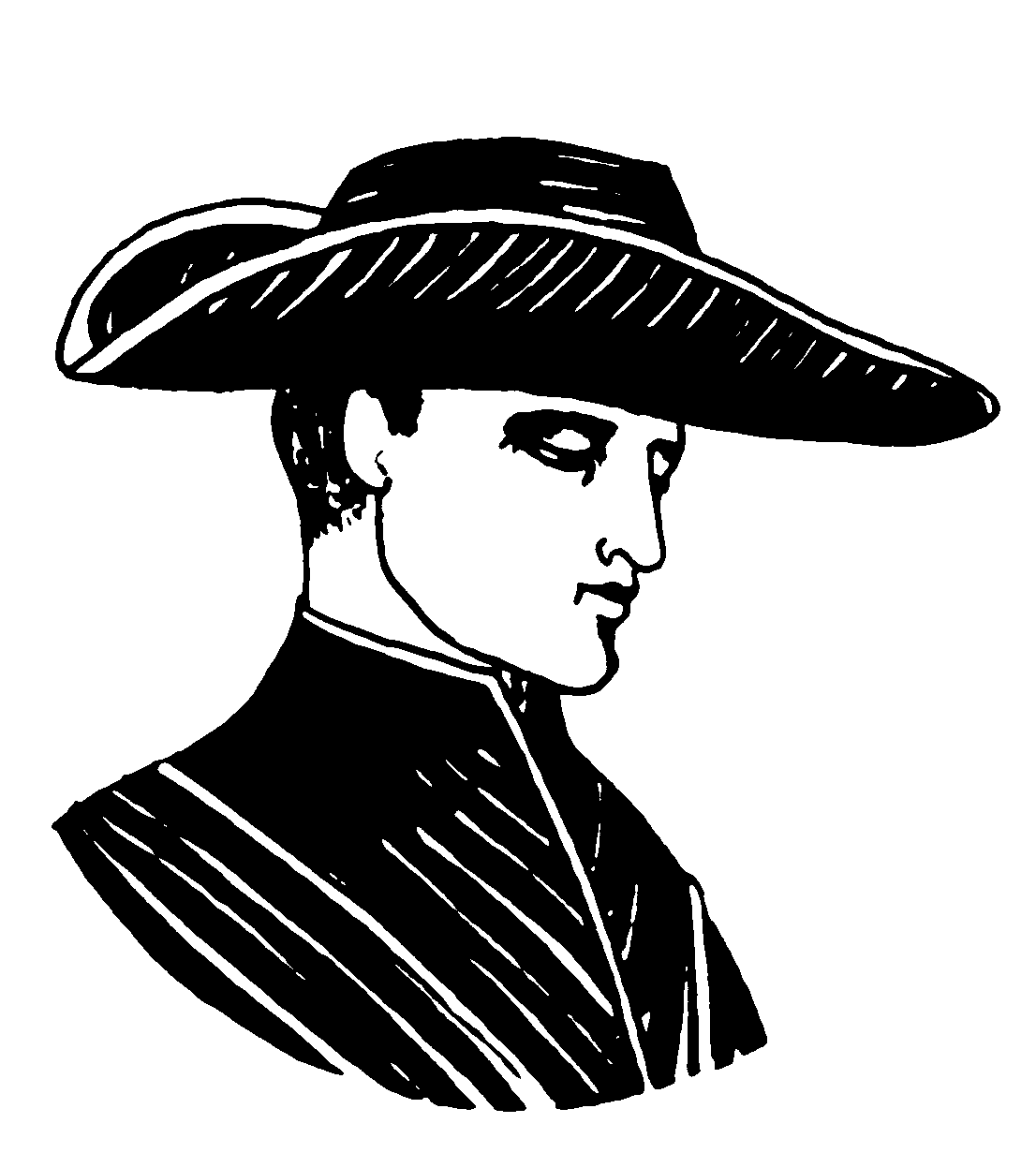 Line art drawing of a shovel hat